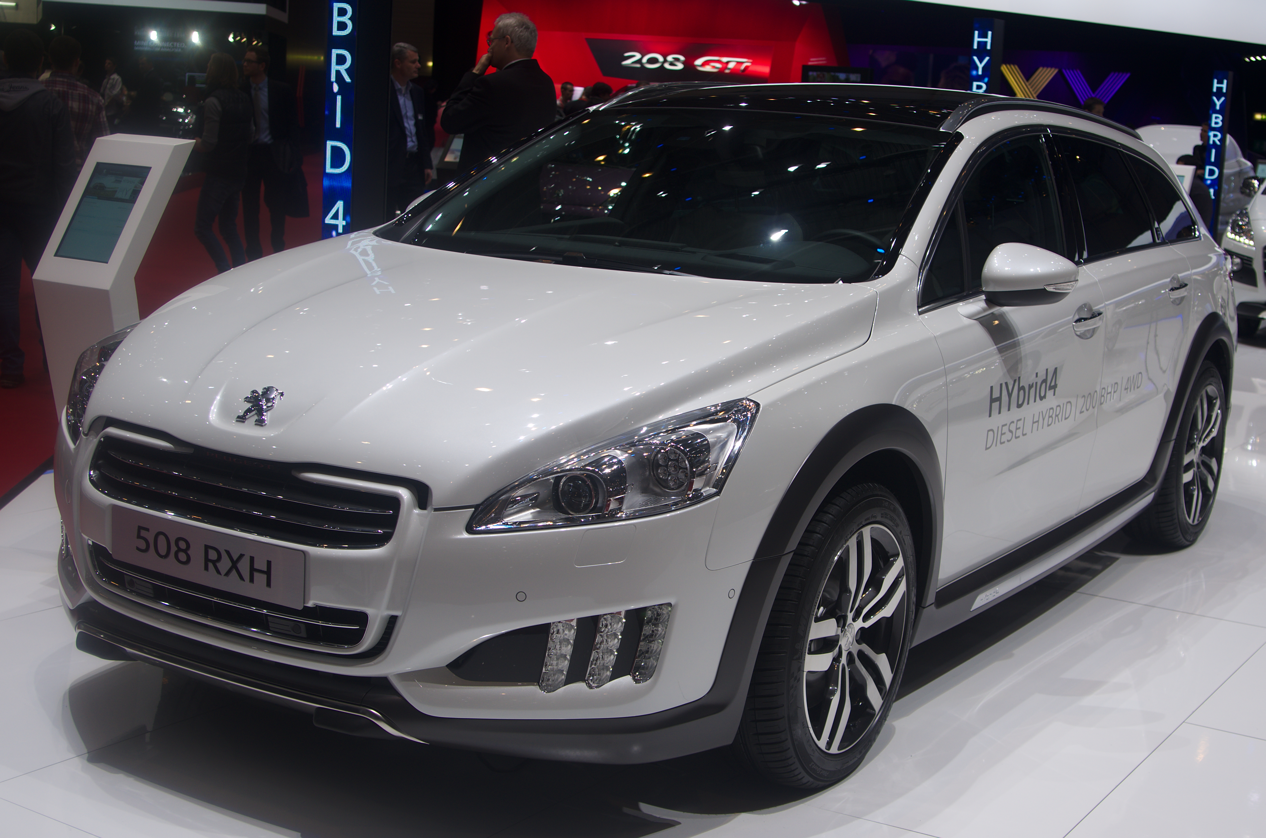 Geneva MotorShow 2013 - Peugeot 508 RXH